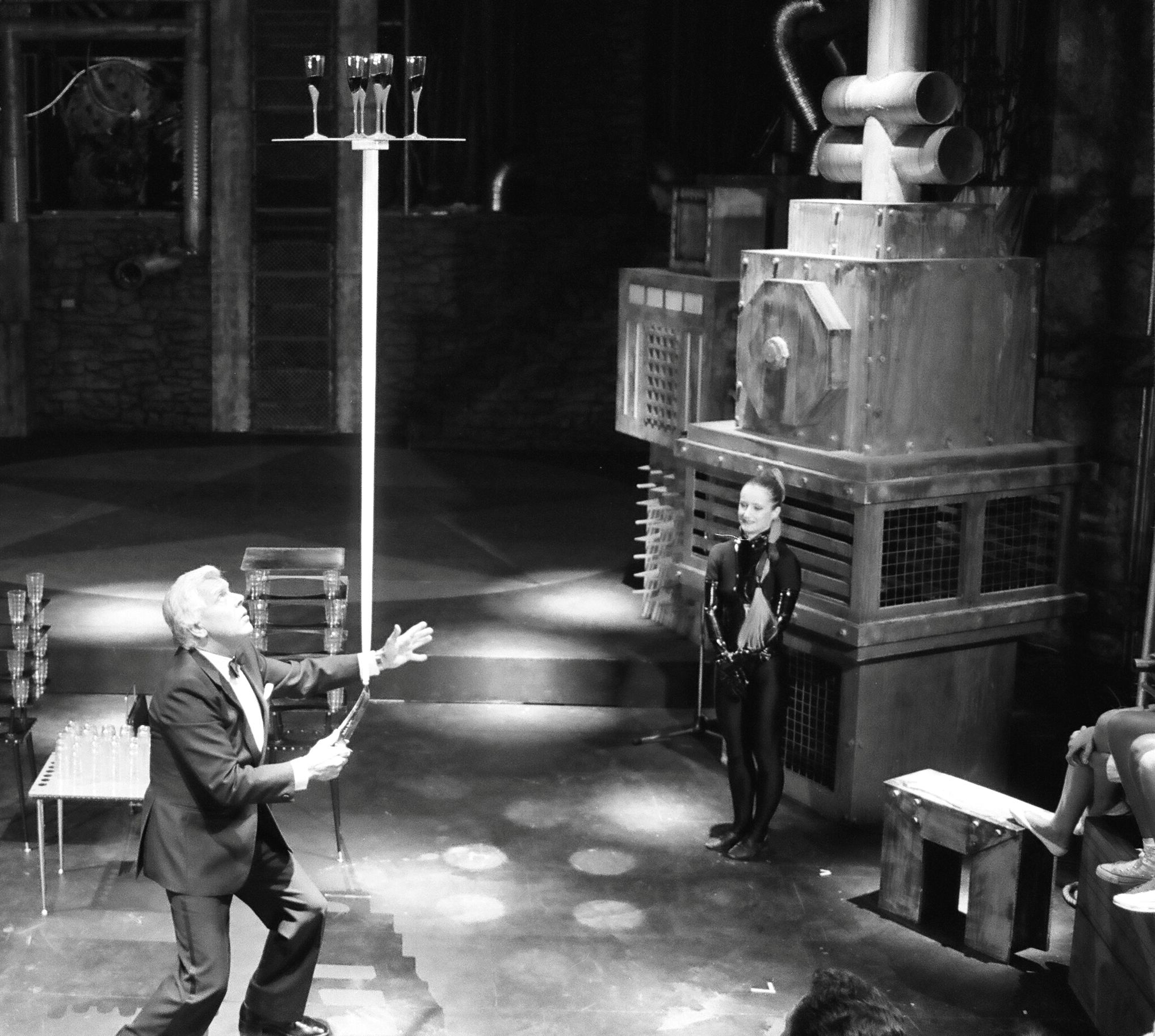 Bartschelly appearing on British television series The Secret Cabaret, produced by Open Media and first broadcast on Channel 4 in 1990